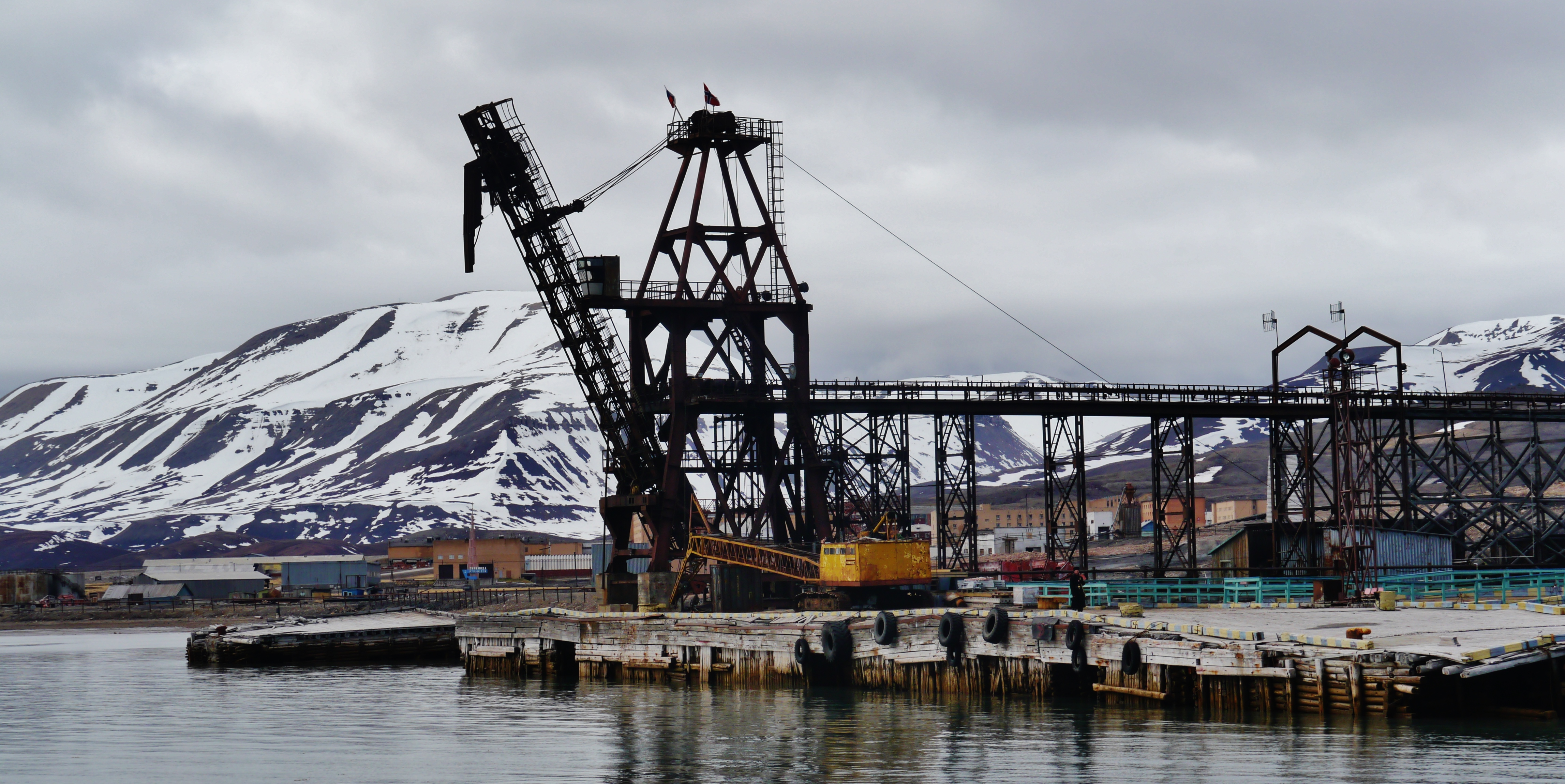 Landing Pier of Pyramiden, Spitsbergen, Norway